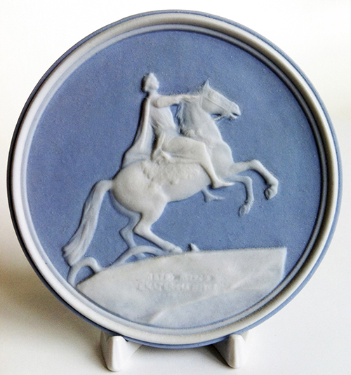 Porcelain of the soviet sculptor Bronislav Bystrushkin (1926-1977). Lomonosov's Porcelain Factory, Leningrad, USSR